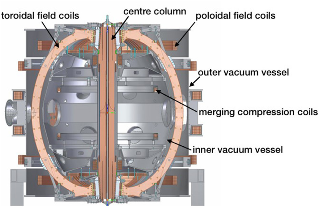 Left: engineering drawing of the ST40 tokamak of Tokamak Energy Ltd, Culham Science Centre, showing the steel support rings above and below the vessel, and the merging-compression coils which provide an initial high current, hot plasma without need of the central solenoid.